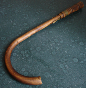 Reconstructed Crumhorn.